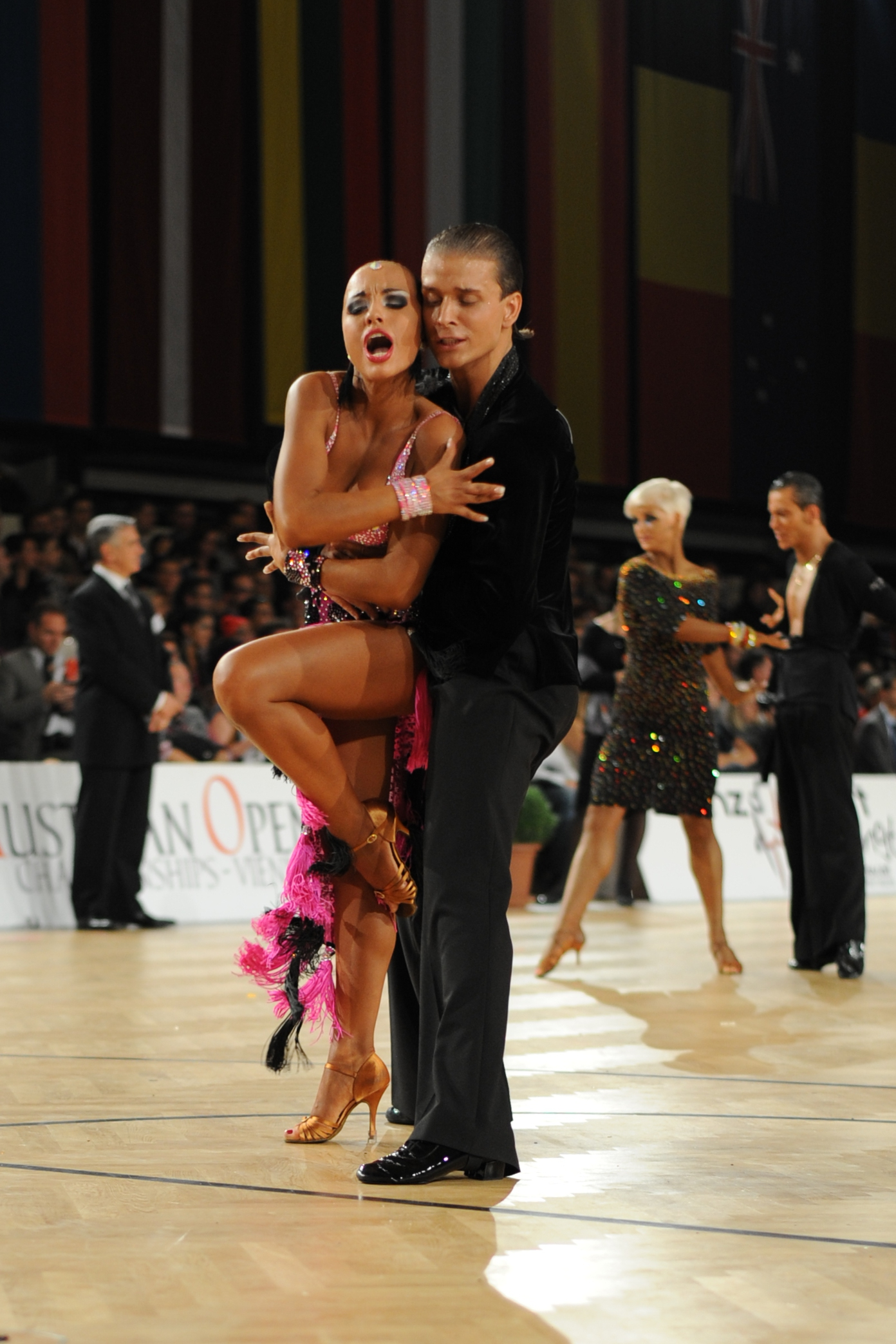 Austrian Open Championships Vienna, 2012 WDSF World Dancesport Championships Latin 16.-18. November 2012 The making of this work was supported by Wikimedia Austria. For other files made with the support of Wikimedia Austria, please see the category Supported by Wikimedia Österreich. Personality rights warning Although this work is freely licensed or in the public domain, the person(s) shown may have rights that legally restrict certain re-uses unless those depicted consent to such uses. In these cases, a model release or other evidence of consent could protect you from infringement claims.